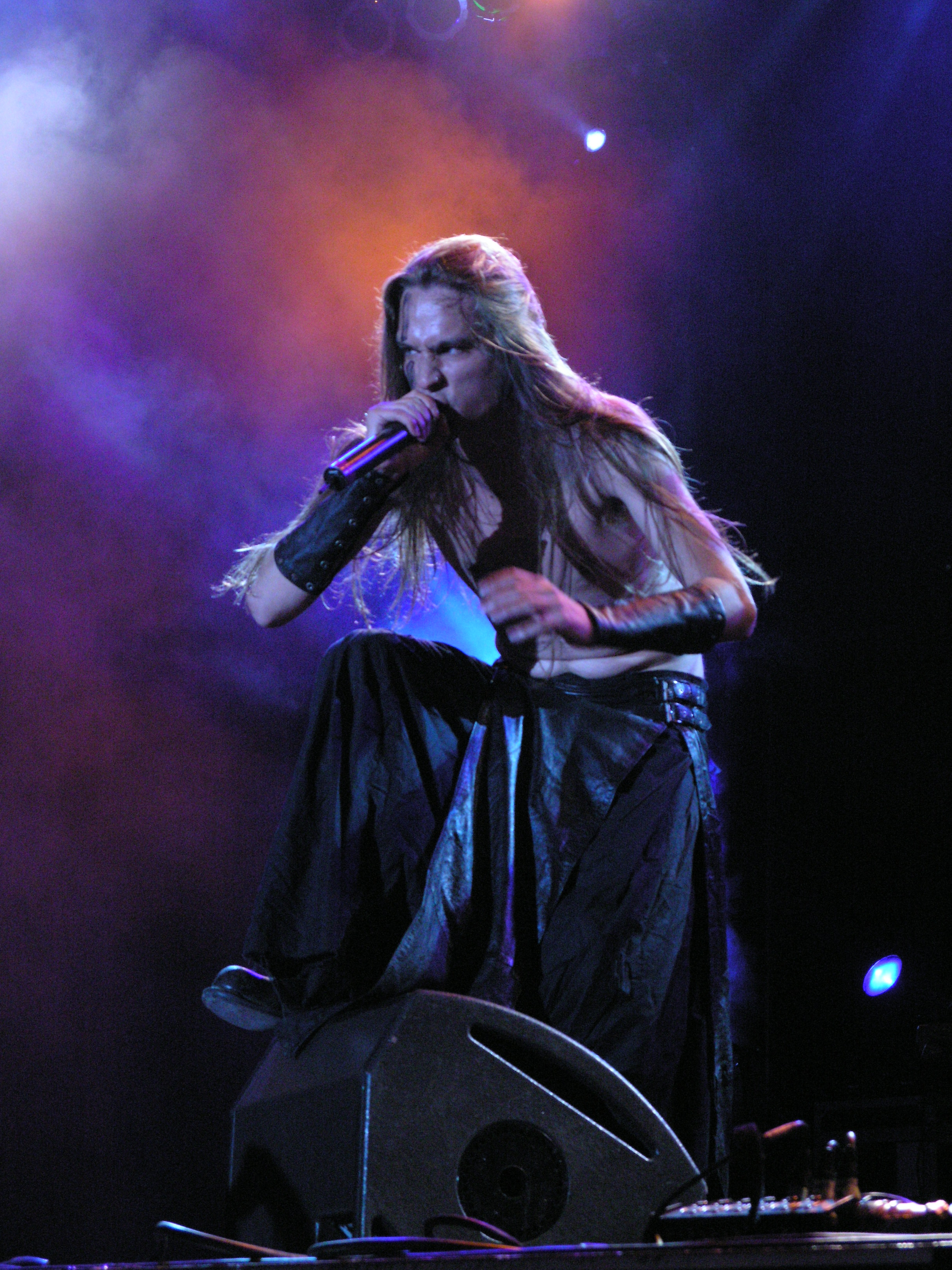 Mathias Lillmåns from Finntroll during Masters of Rock 2007 festival